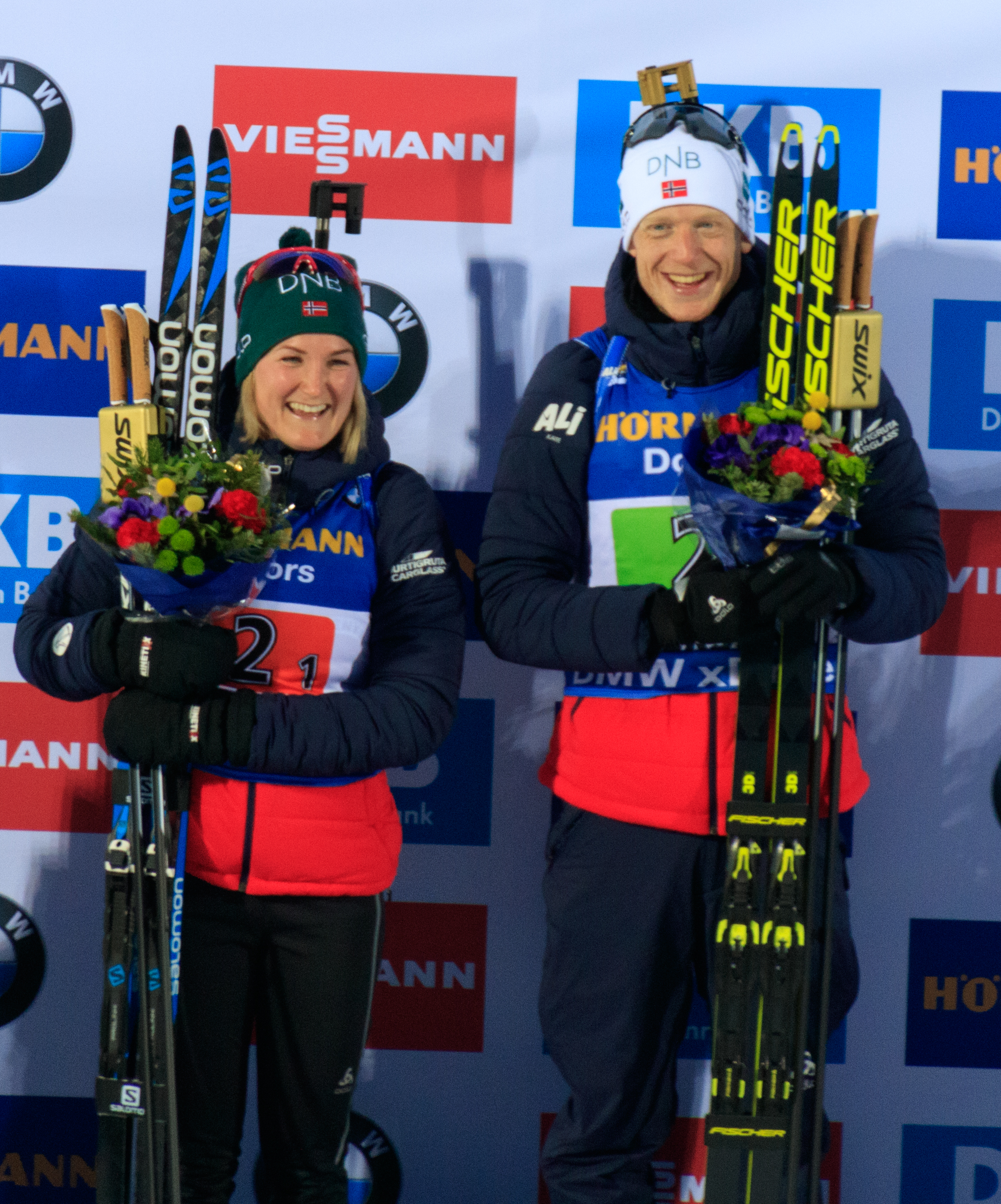 Marte Olsbu Røiseland and Johannes Thingnes Bø in Östersund 2019